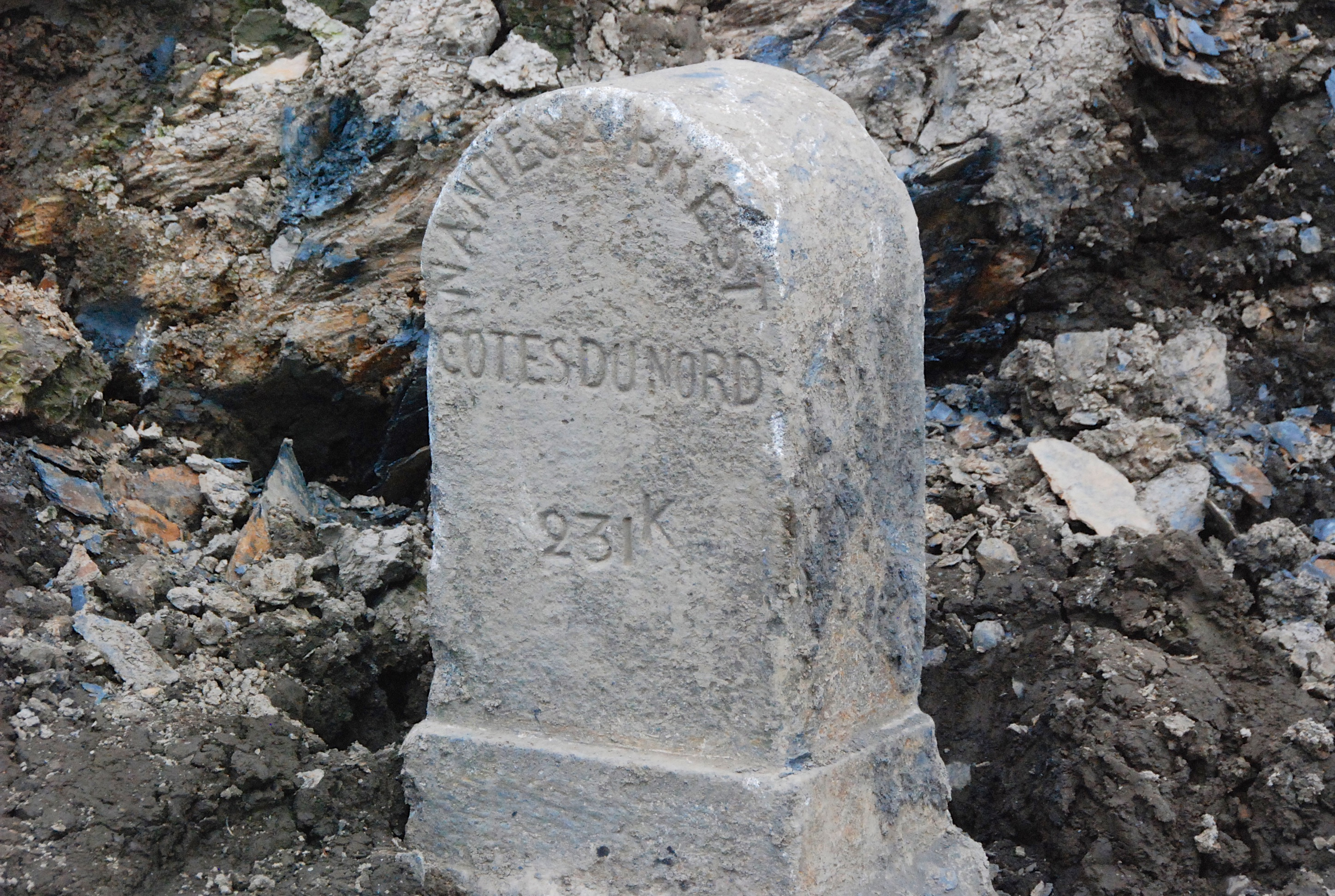 Borne kilométrique en amont de Beau Rivage